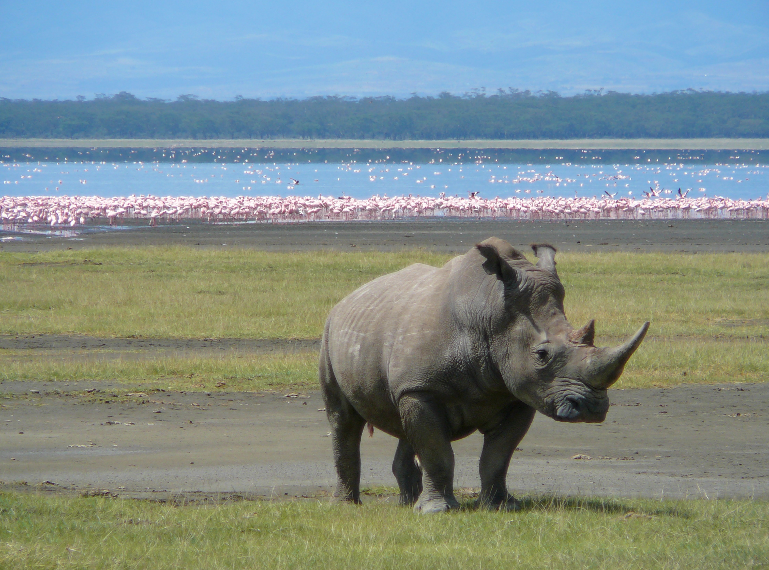 White Rhinoceros (Ceratotherium simum simum) in Lake Nakuru NP, Kenya.